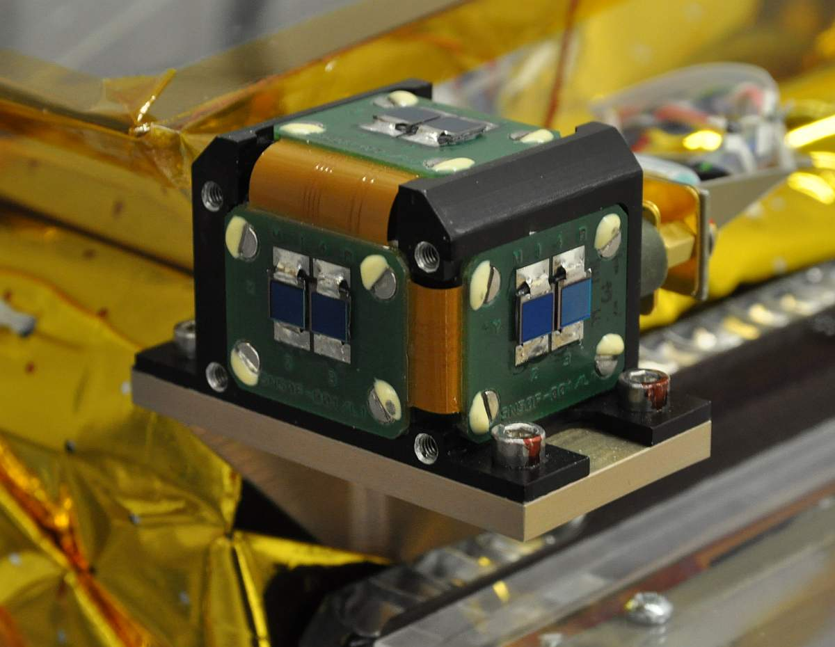 Sun sensor of a satellite